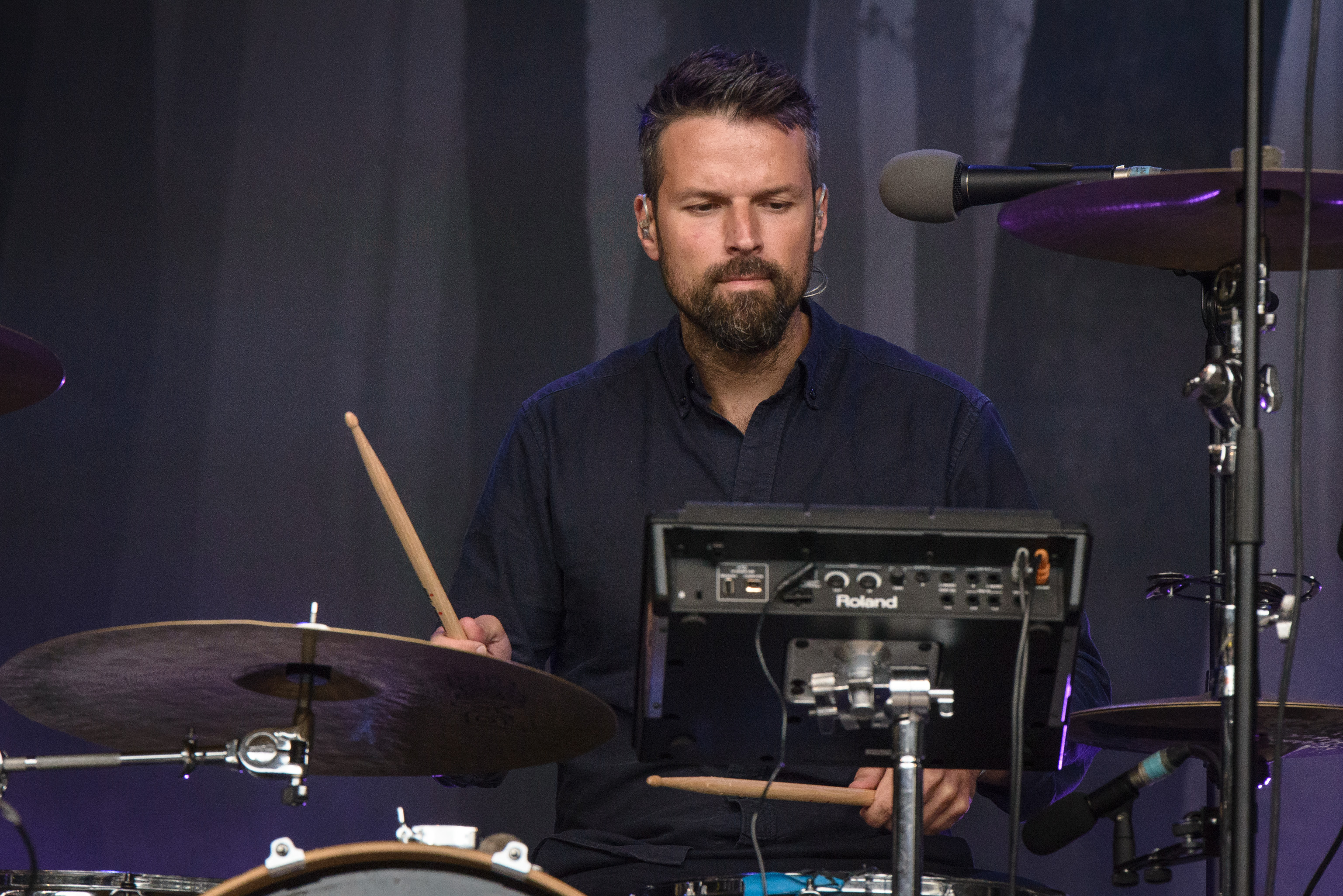 Aurora live @ Pulsopenair 2016